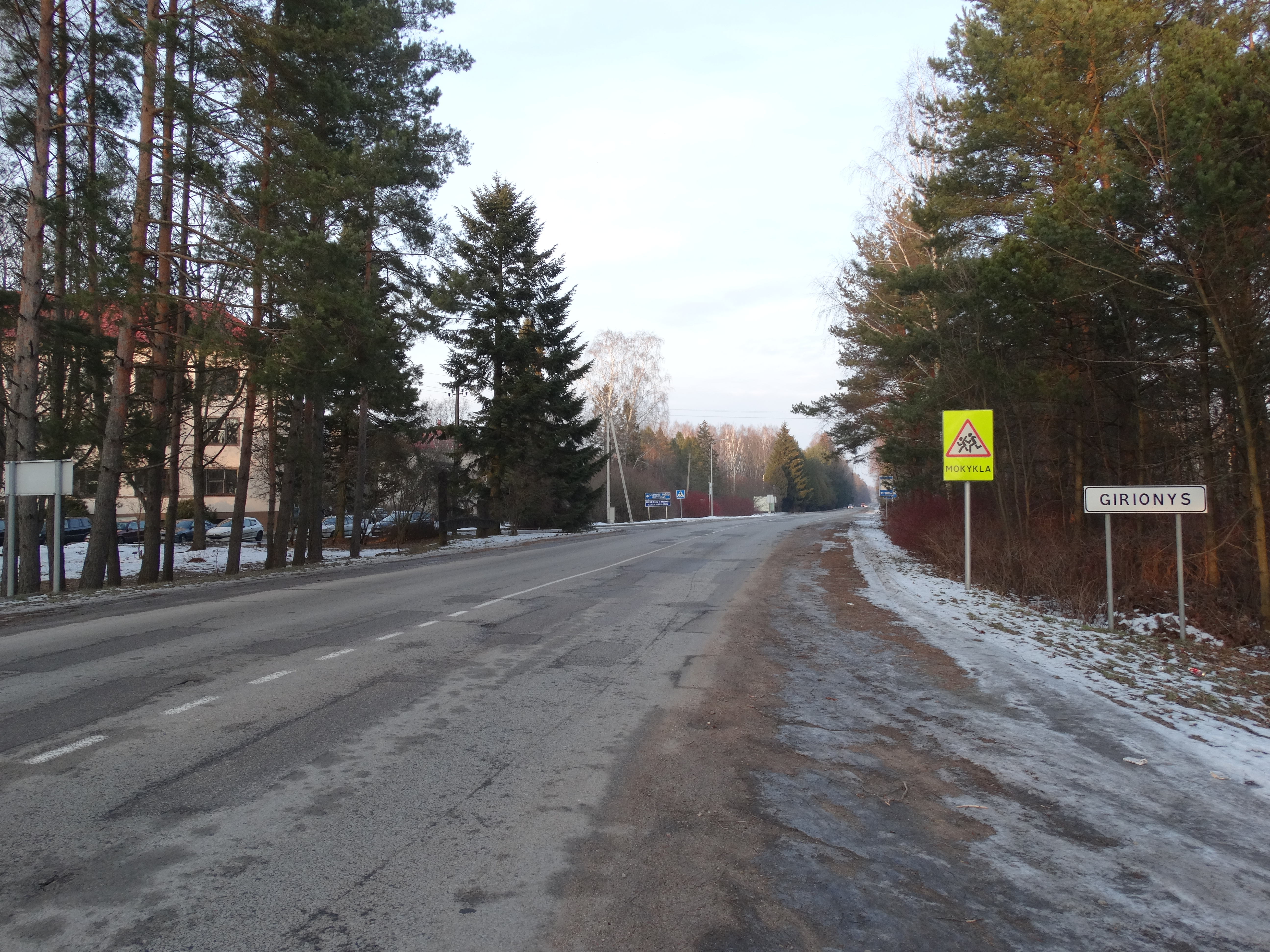 Girionys, Kaunas District, Lithuania